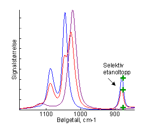 Range of ethanol mixture for quantitative analysis